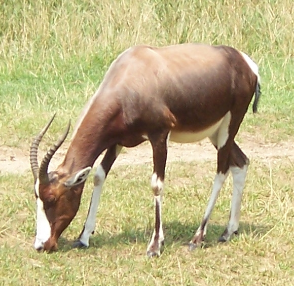 Bontebok at Binder Park Zoo.